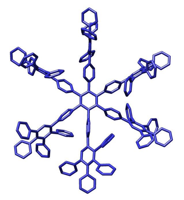 This is a picture generated from crystal structure data reported by Roland. E. Bauer, Dipl.-Chem., Volker Enkelmann, Uwe M. Wiesler, Alexander J. Berresheim, Klaus Müllen in Chemistry - A European Journal, Year 2002, Volume 8, Issue 17, Pages 3858-3864. It shows a first-generation polyphenylene dendrimer. It was made by myself and is free to be used by all.